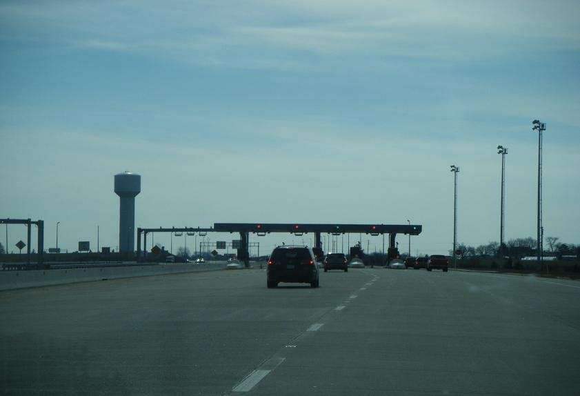 Biddles Corner toll plaza on southbound Delaware Route 1 in Biddles Corner, Delaware, with high-speed E-ZPass lanes